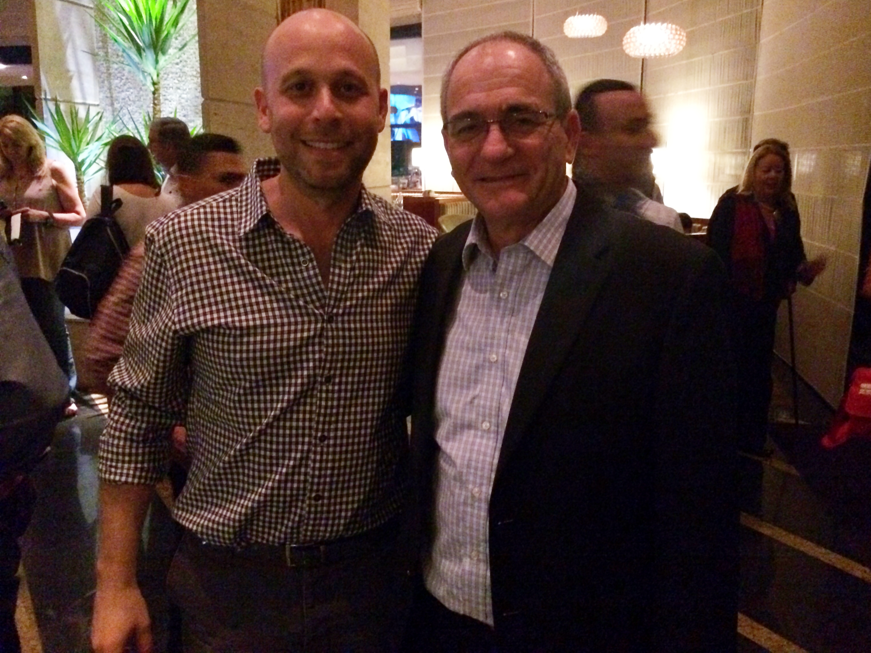 Yossi Kuperwasser at a conference on hemispheric security and terrorist penetration in Latin America (c. 2014)